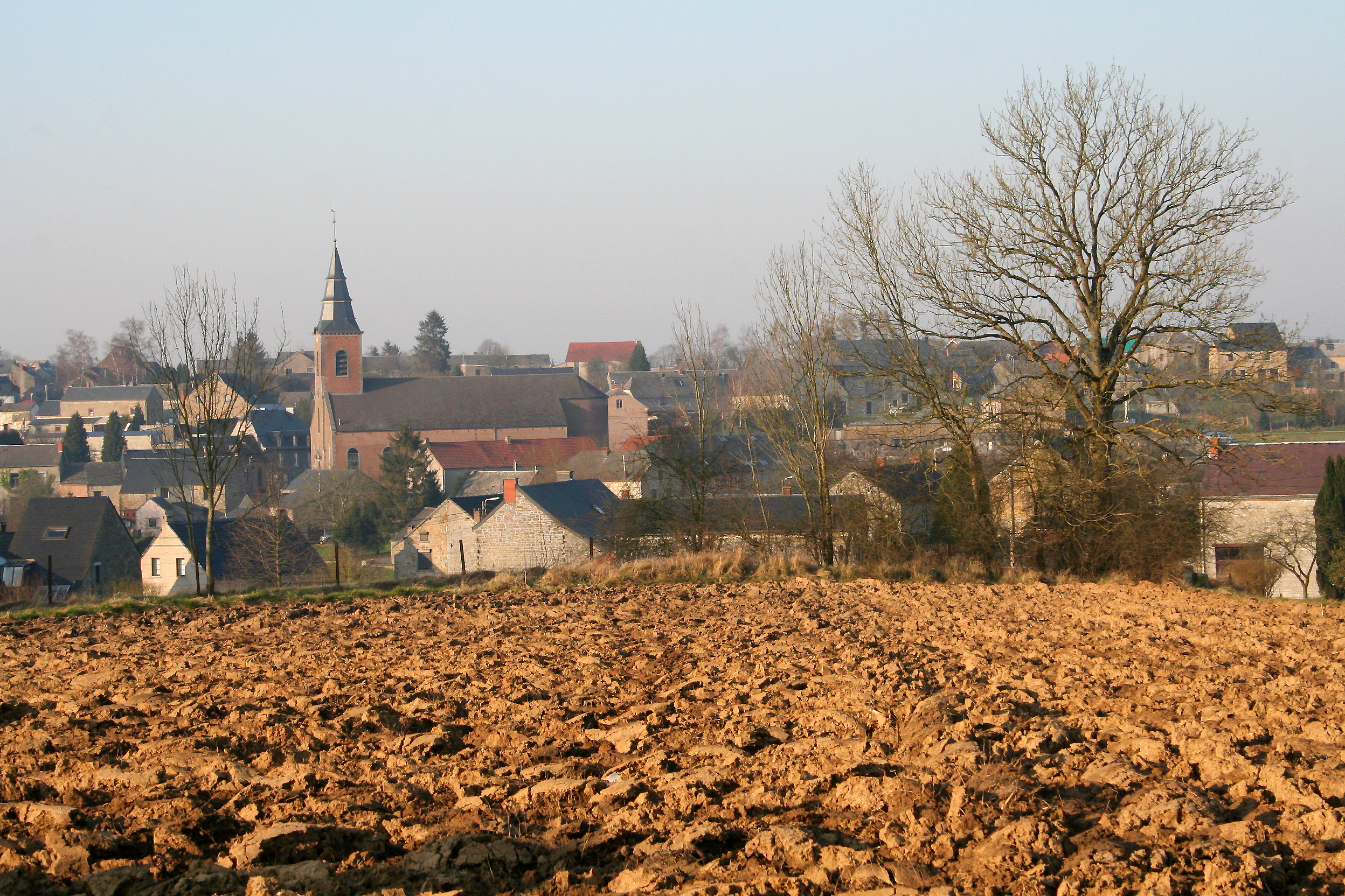 Évrehailles (Belgium), the town viewed from the rue d’Évrehailles.